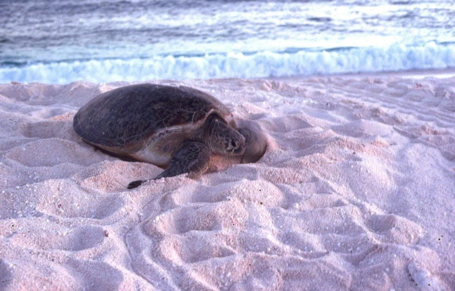 Turtle on a beach of Tromelin, Indian Ocean.